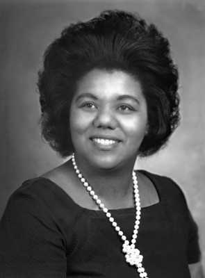 Katie Hall, member of the United States House of Representatives.